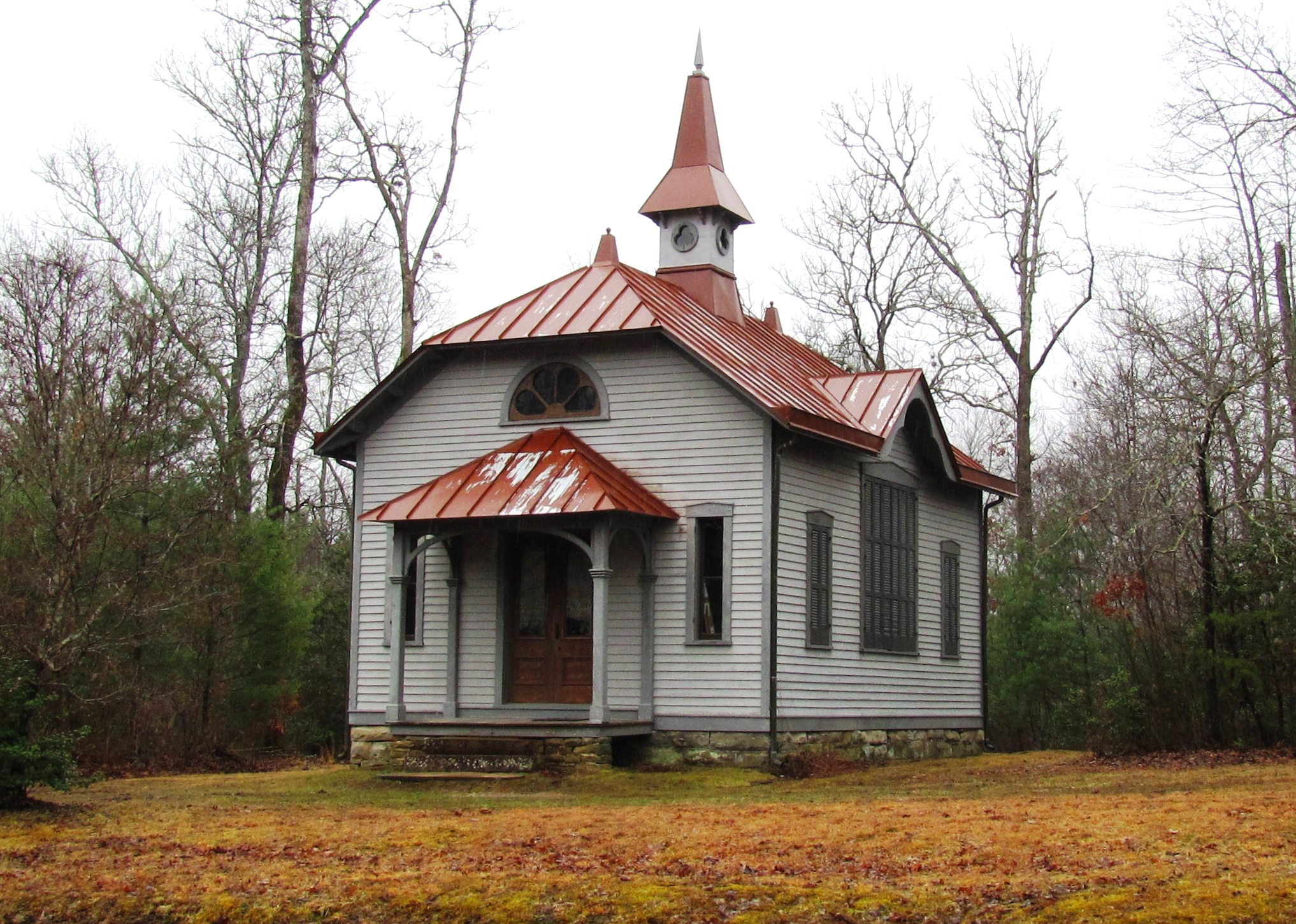 The Thomas Hughes Library in Rugby, Tennessee, USA, built by the Rugby Colony in 1882 and named for its founder.